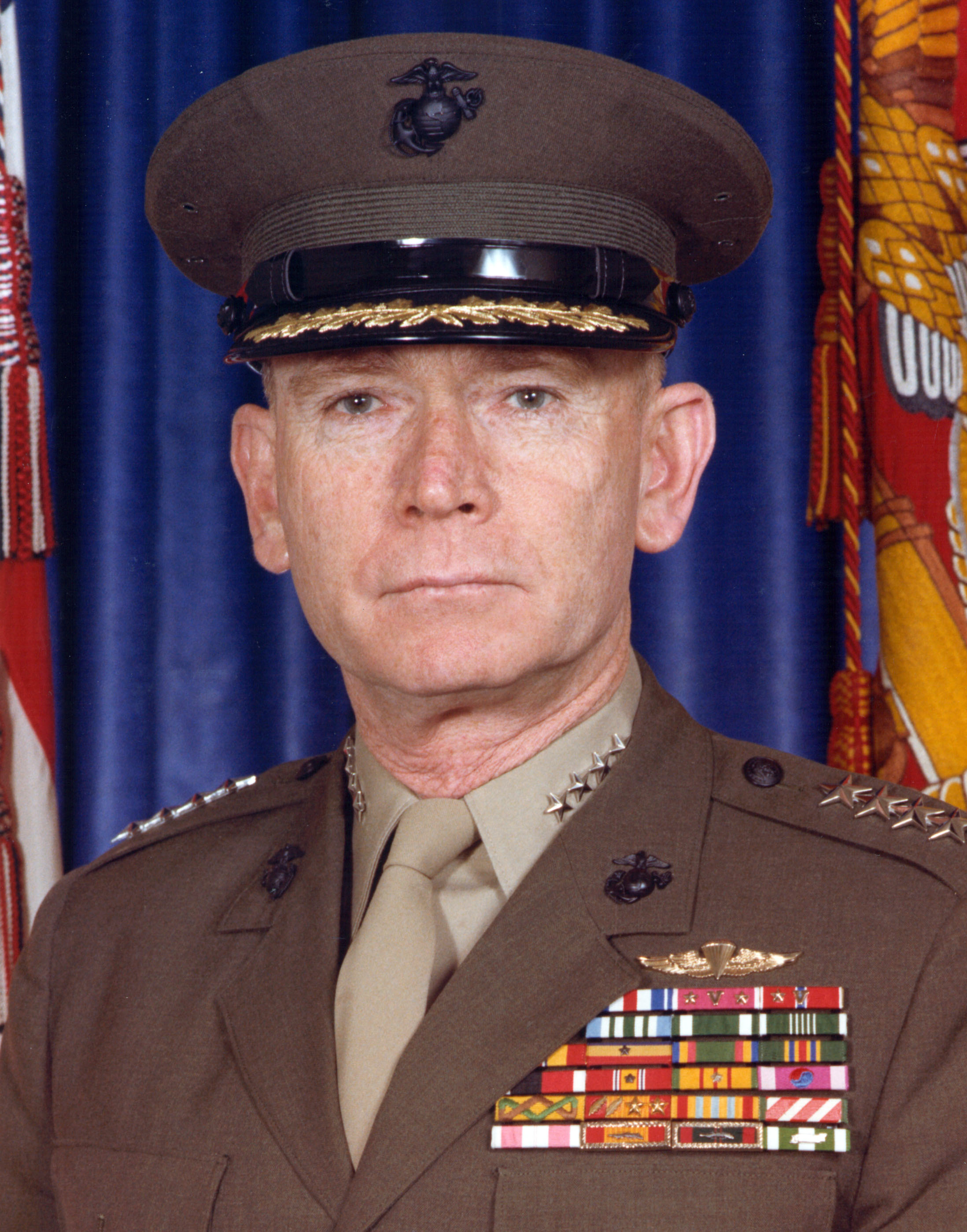 GEN Paul X. Kelley, USMC